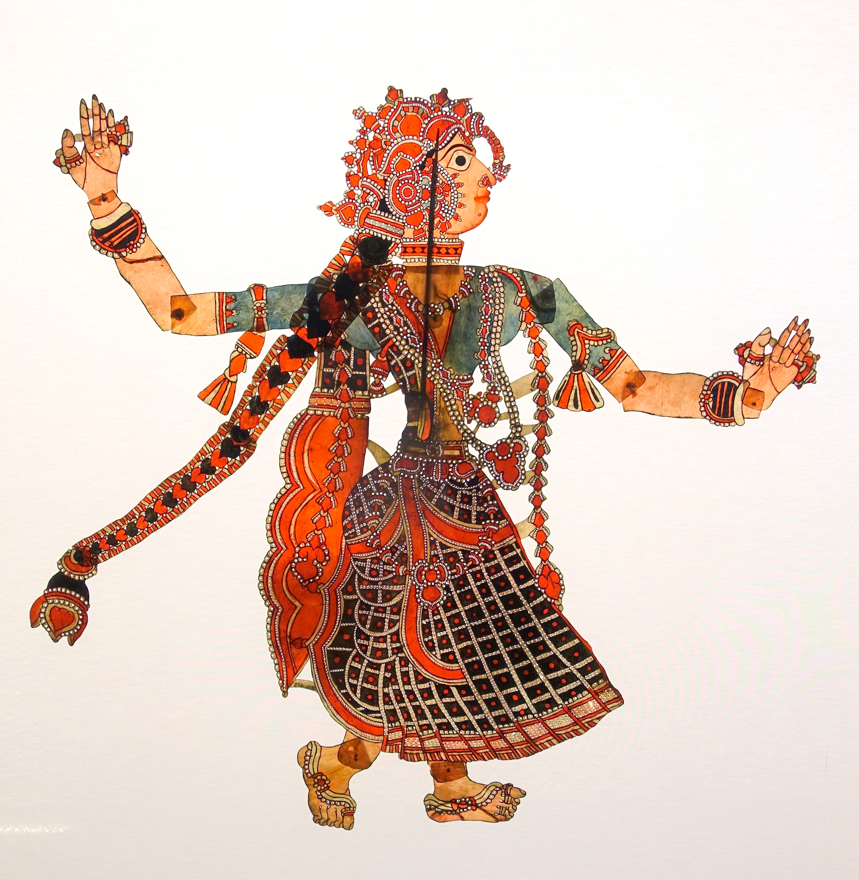 Exhibit in the Museu do Oriente - Lisbon, Portugal. This work is old enough so that it is in the public domain.